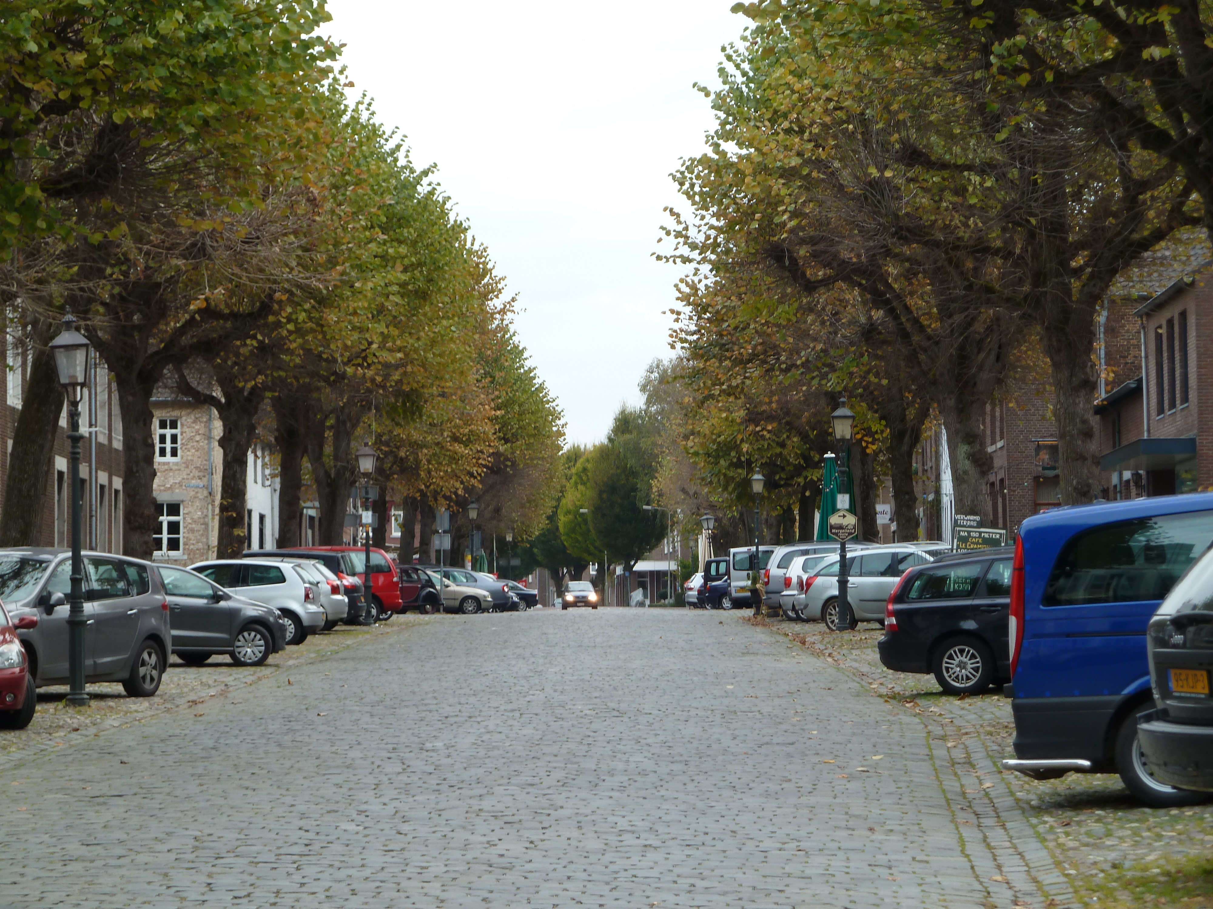 Diepstraat, Eijsden, Limburg, the Netherlands